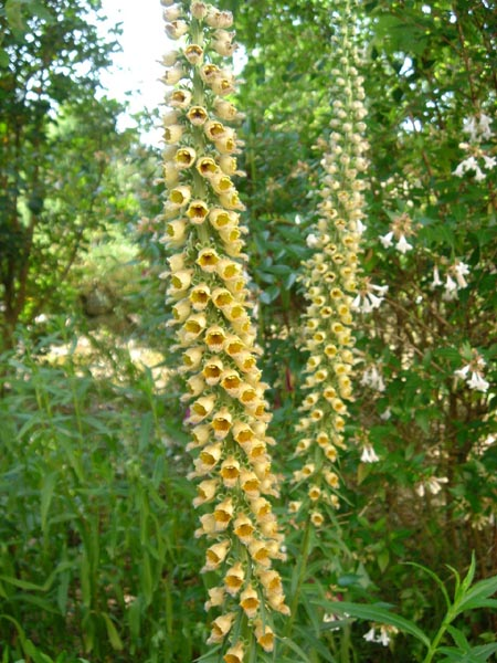 Digitalis ferruginea